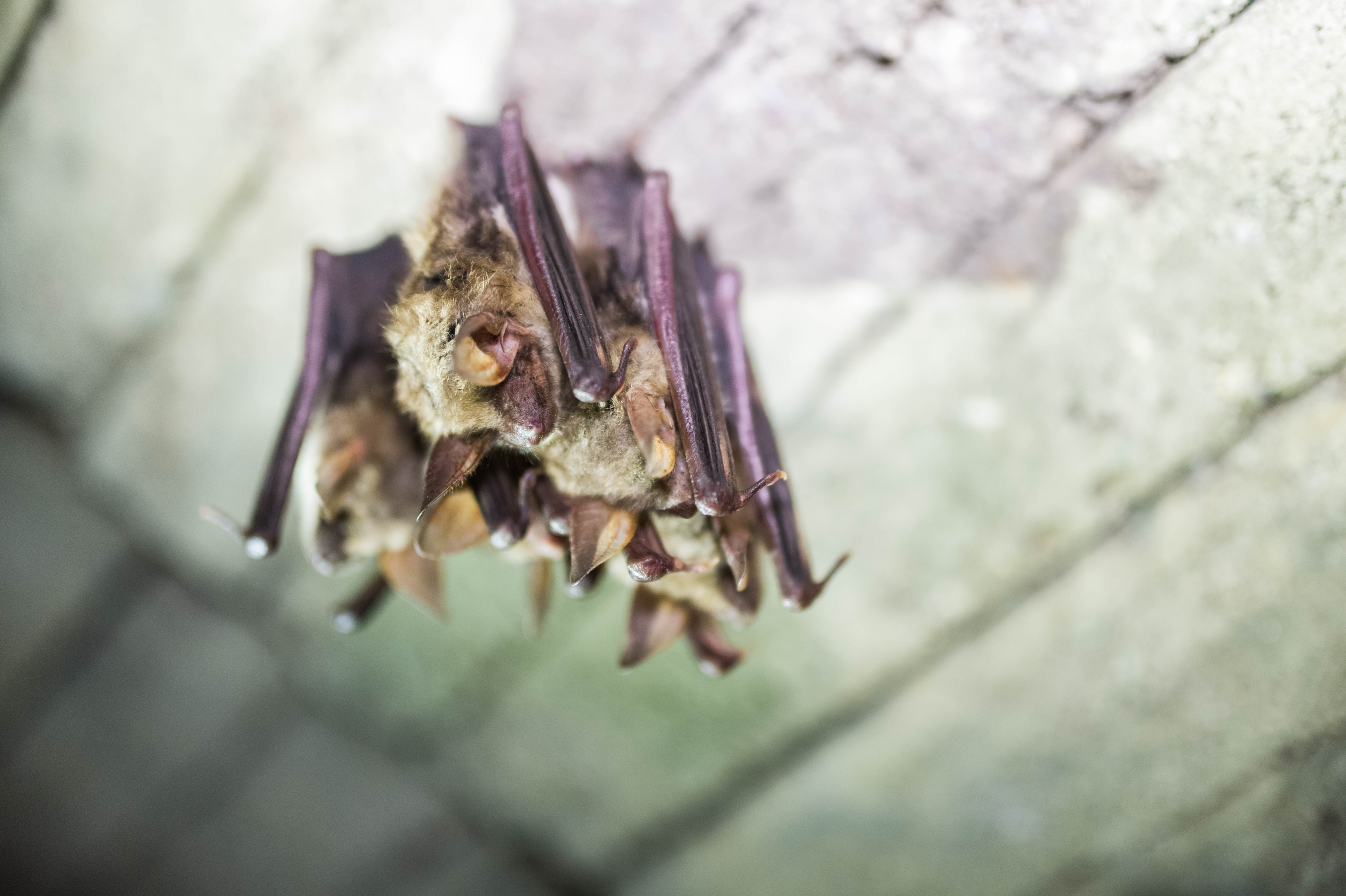 Myotis myotis, image taken in Velká and Malá Amerika old quarry, Czech republic